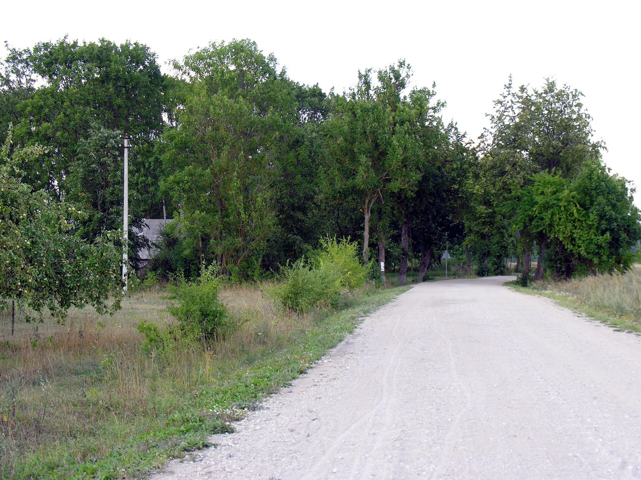 Ašvėnai village